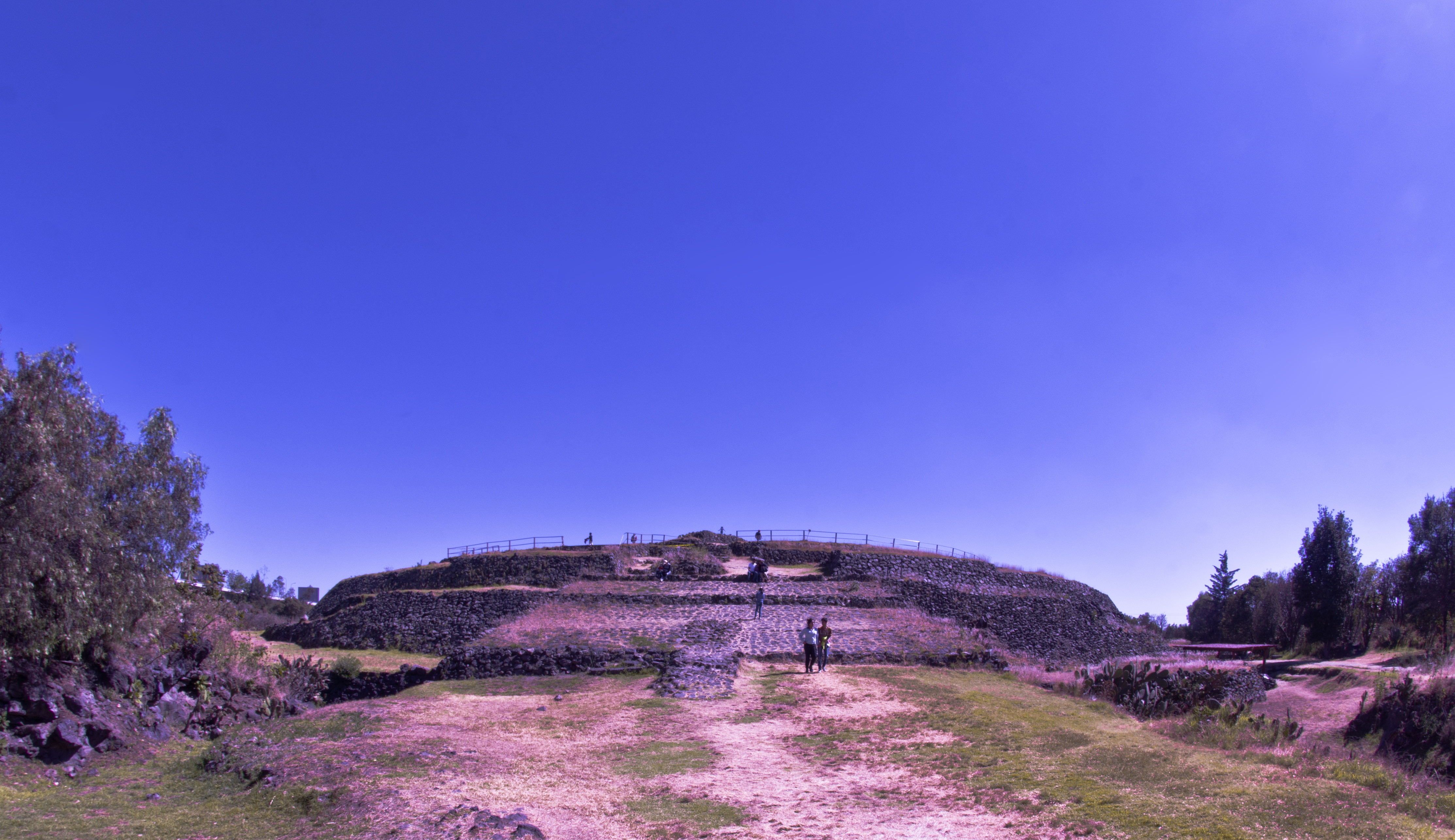 Shot with a Pentax K-3 II camera using a Sigma 10mm f/2.8 EX DC Fisheye lens.